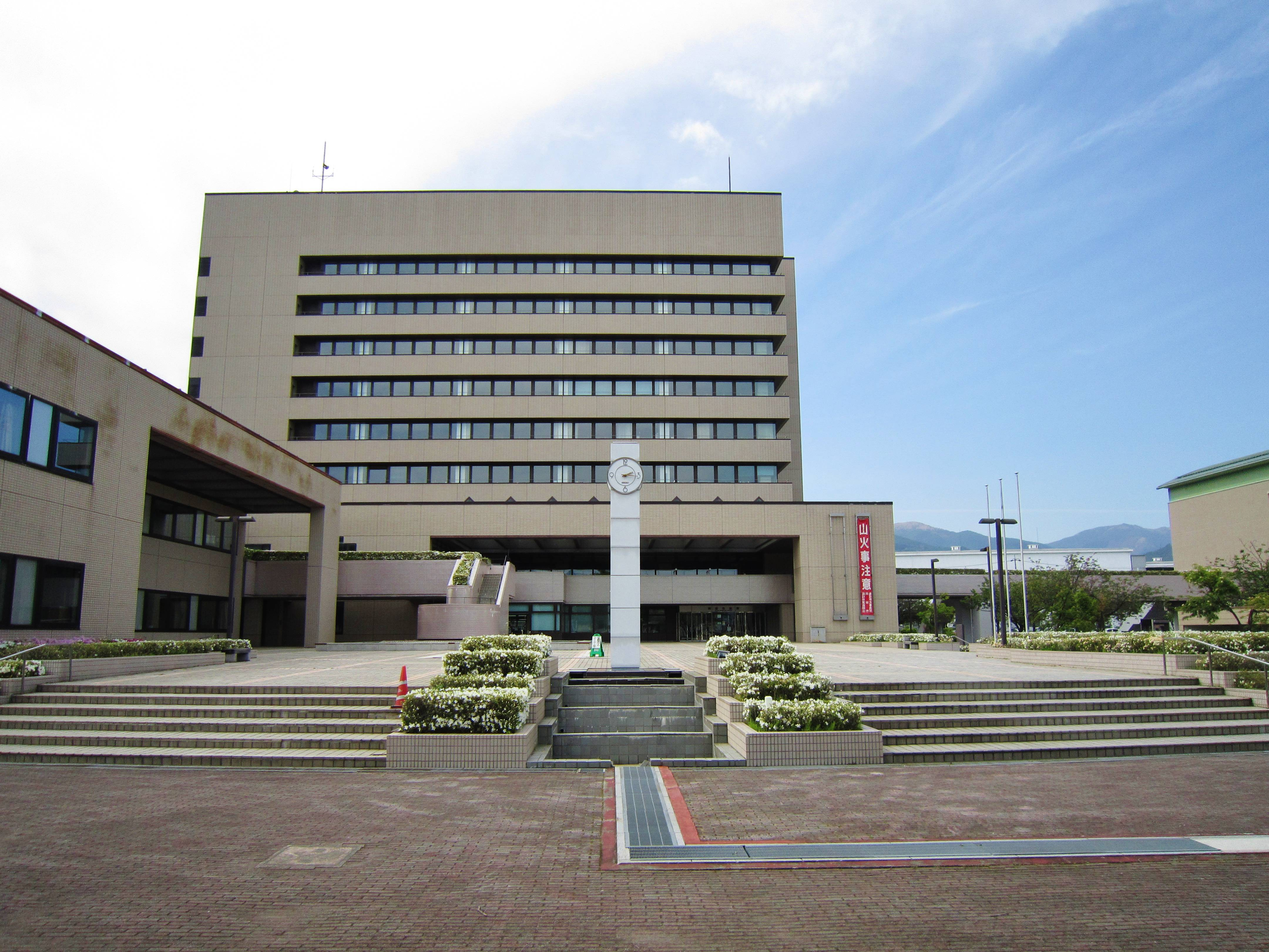 Okaya city office.